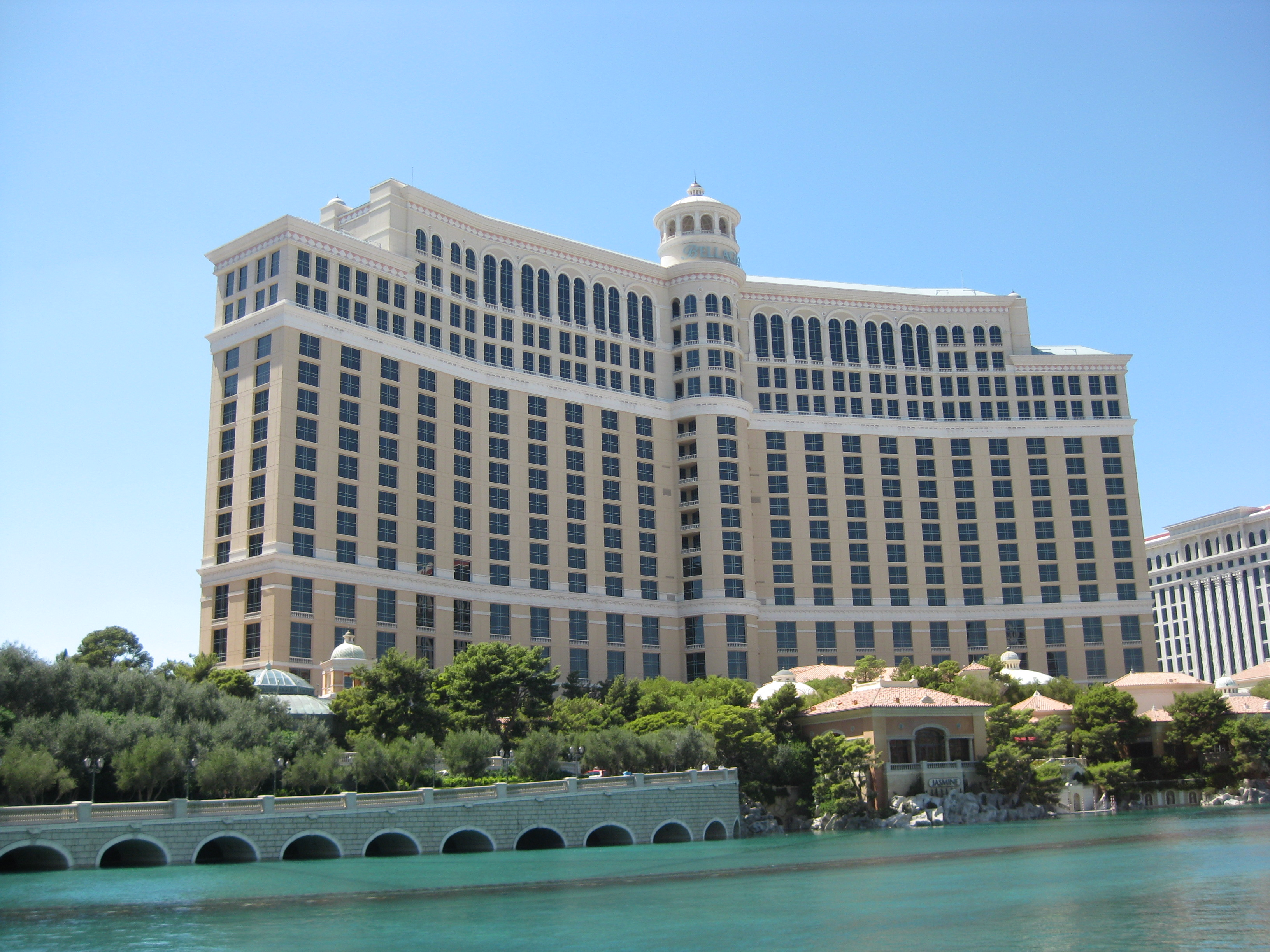 The Bellagio Resort and Casino